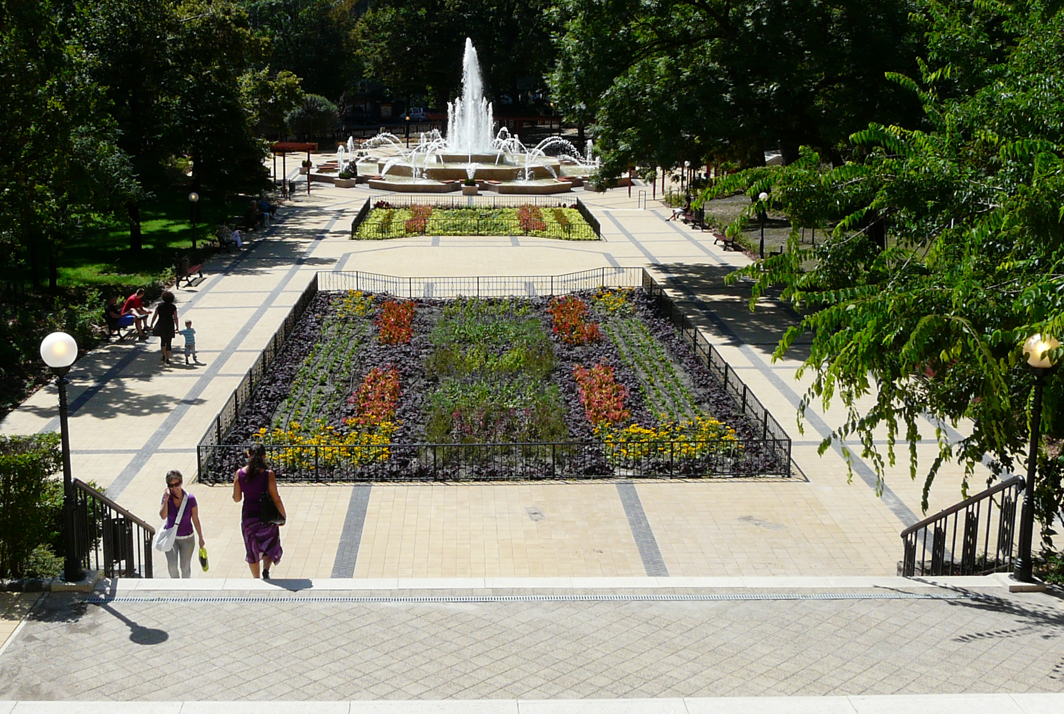 Mechwart square in Budapest